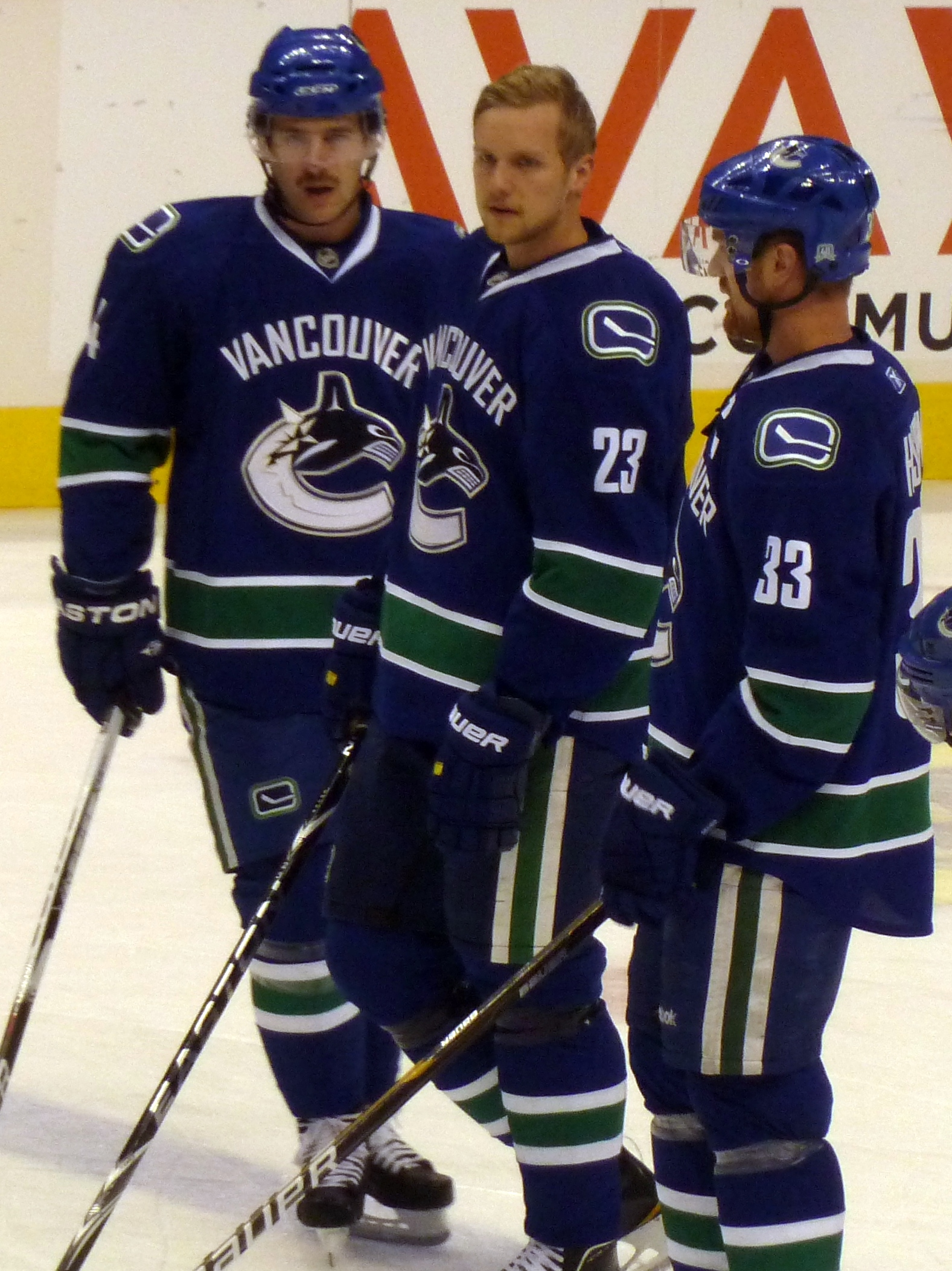 Canucks players Keith Ballard, Alexander Edler and Henrik Sedin prior to a game against the Colorado Avalanche on November 24, 2010.